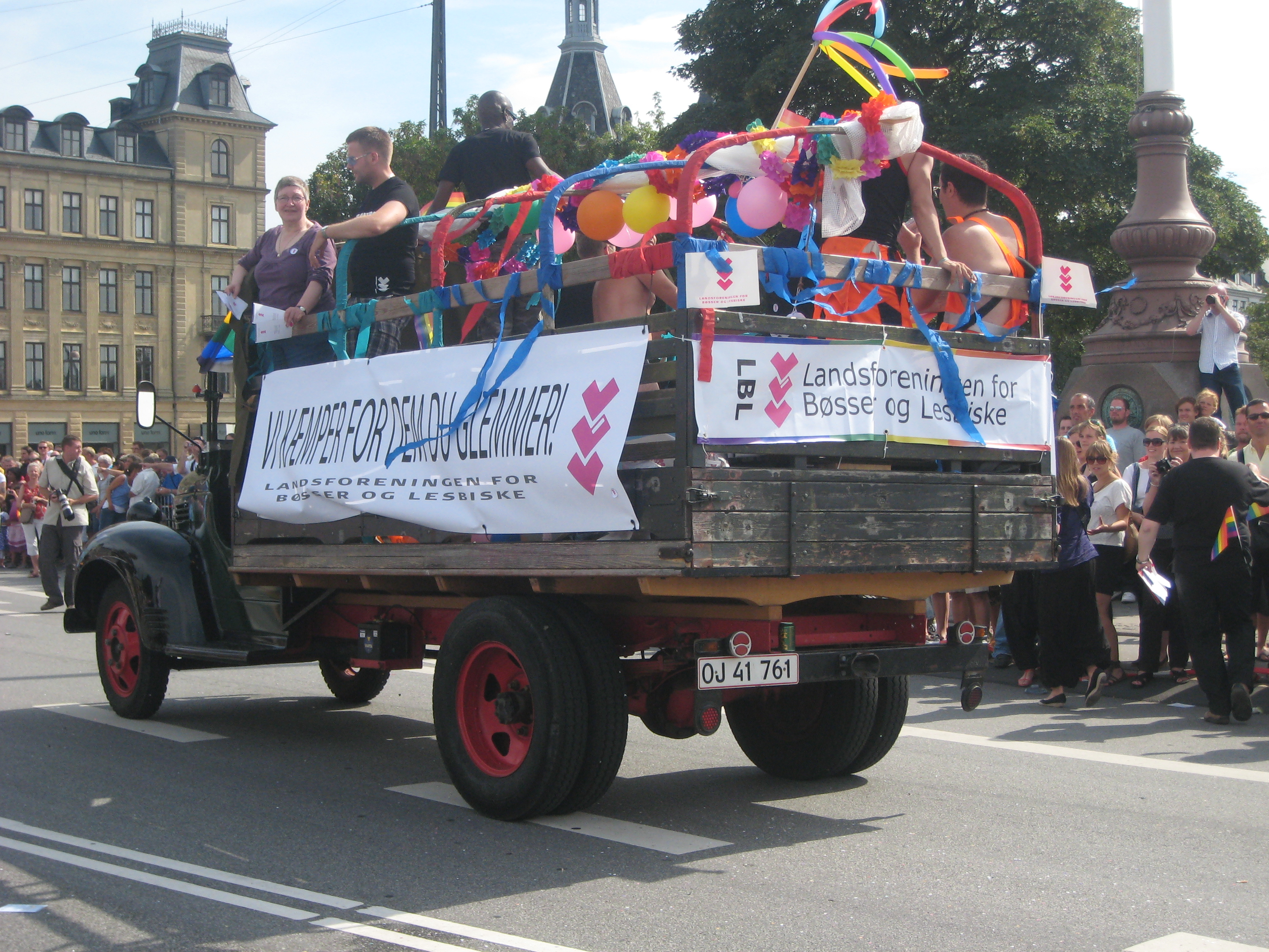 LBL (The Danish National Association of Gays & Lesbians) at Copenhagen pride 2009.